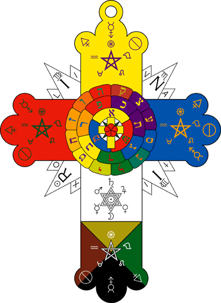 Rose Cross symbol according to Order of the Golden Dawn, ca. 1900